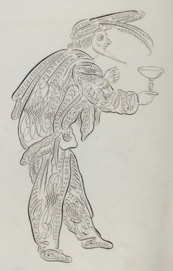 Anonymous calligraphy after Jacques Callot (XVIIth century)